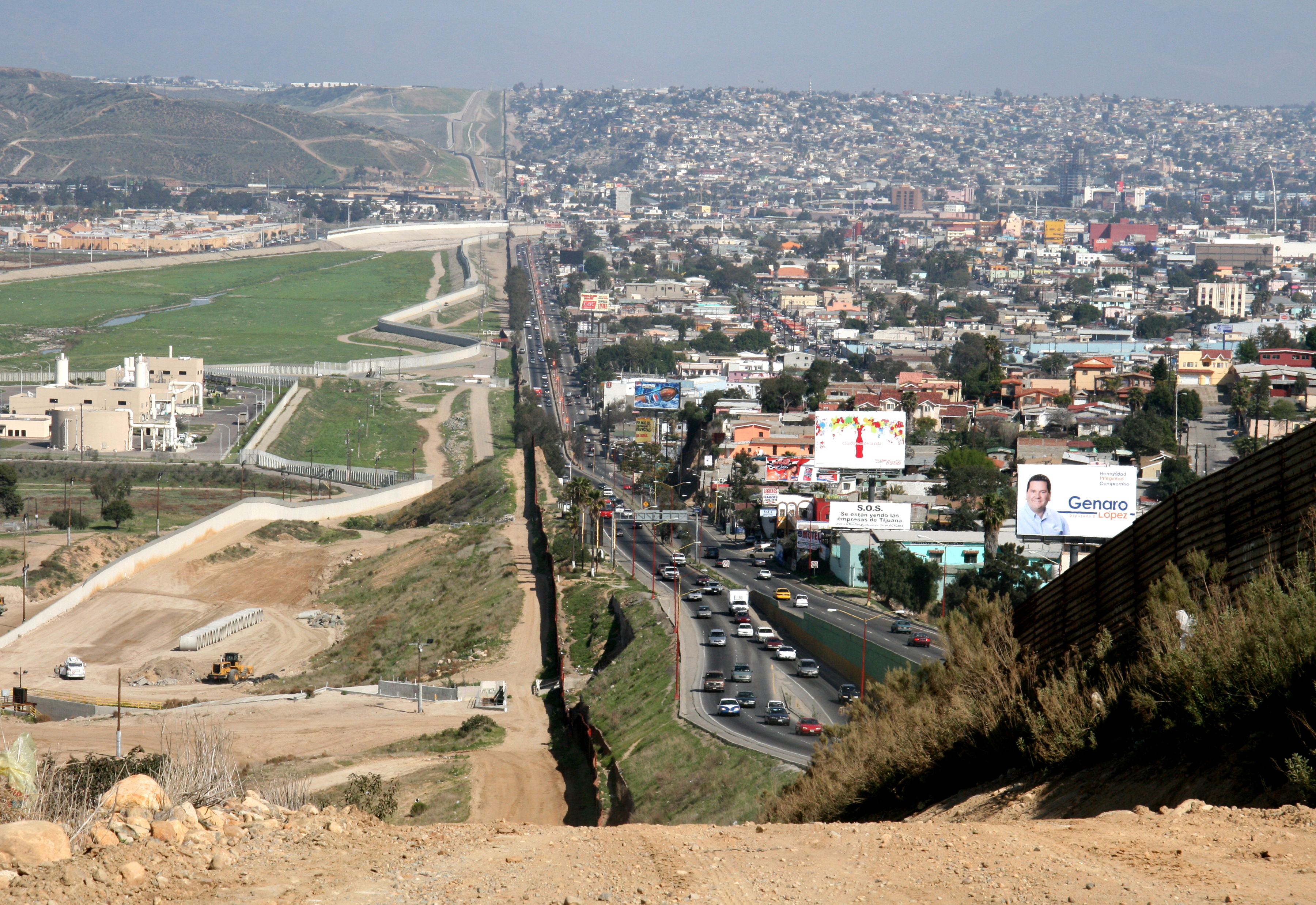 A small fence separates densely-populated Tijuana, Mexico, right, from the United States in the Border Patrol's San Diego Sector. Construction is underway to extend a secondary fence over the top of this hill and eventually to the Pacific Ocean.